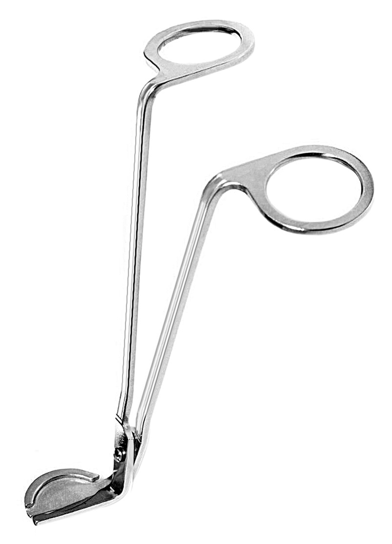 Contemporary candle wick trimmer